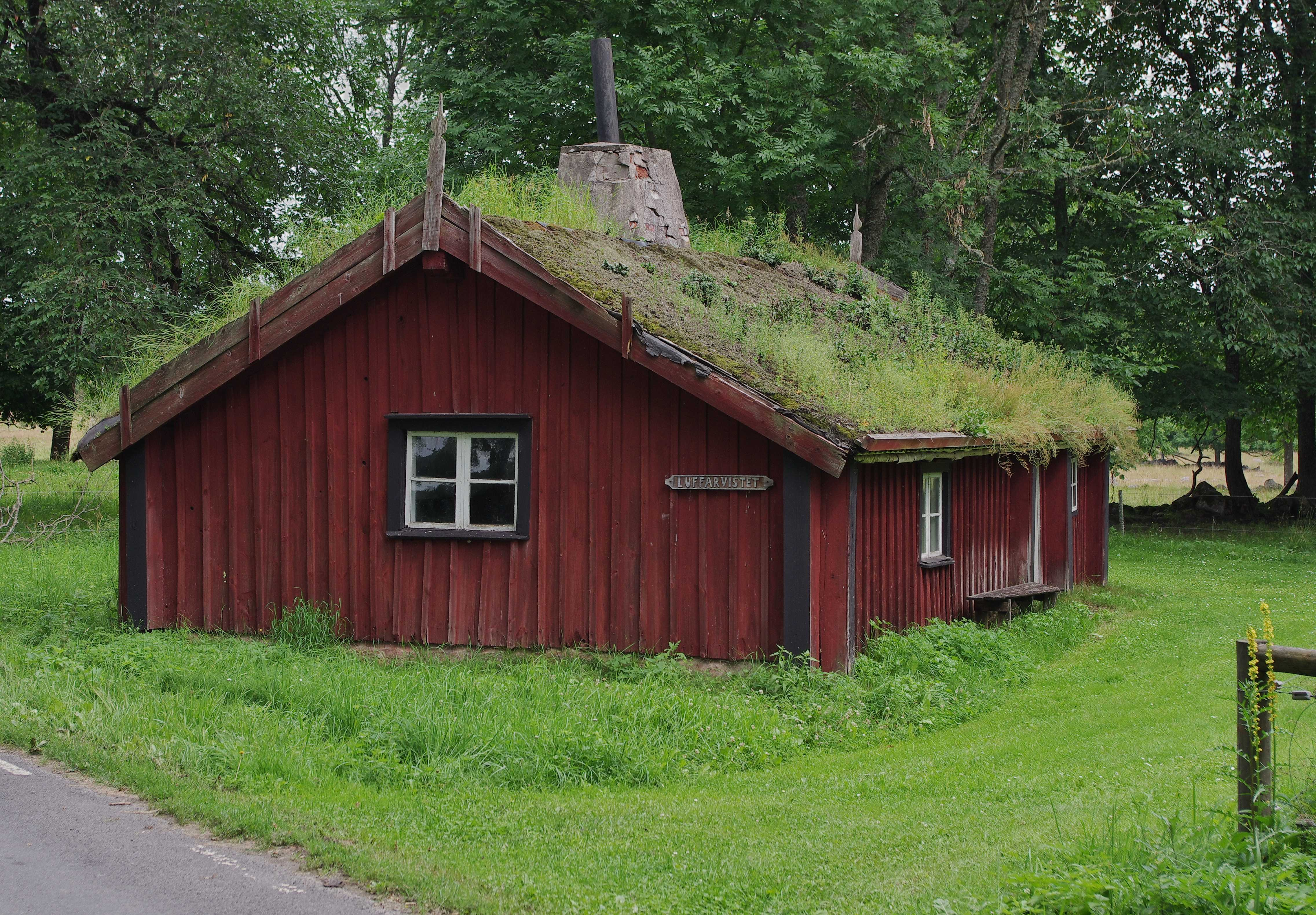 The row village Hömb in Västergötland, Sweden. The cabin Luffarvistet (swedish:≈Hobo camp) is the last remains from the klungby (≈cluster village).